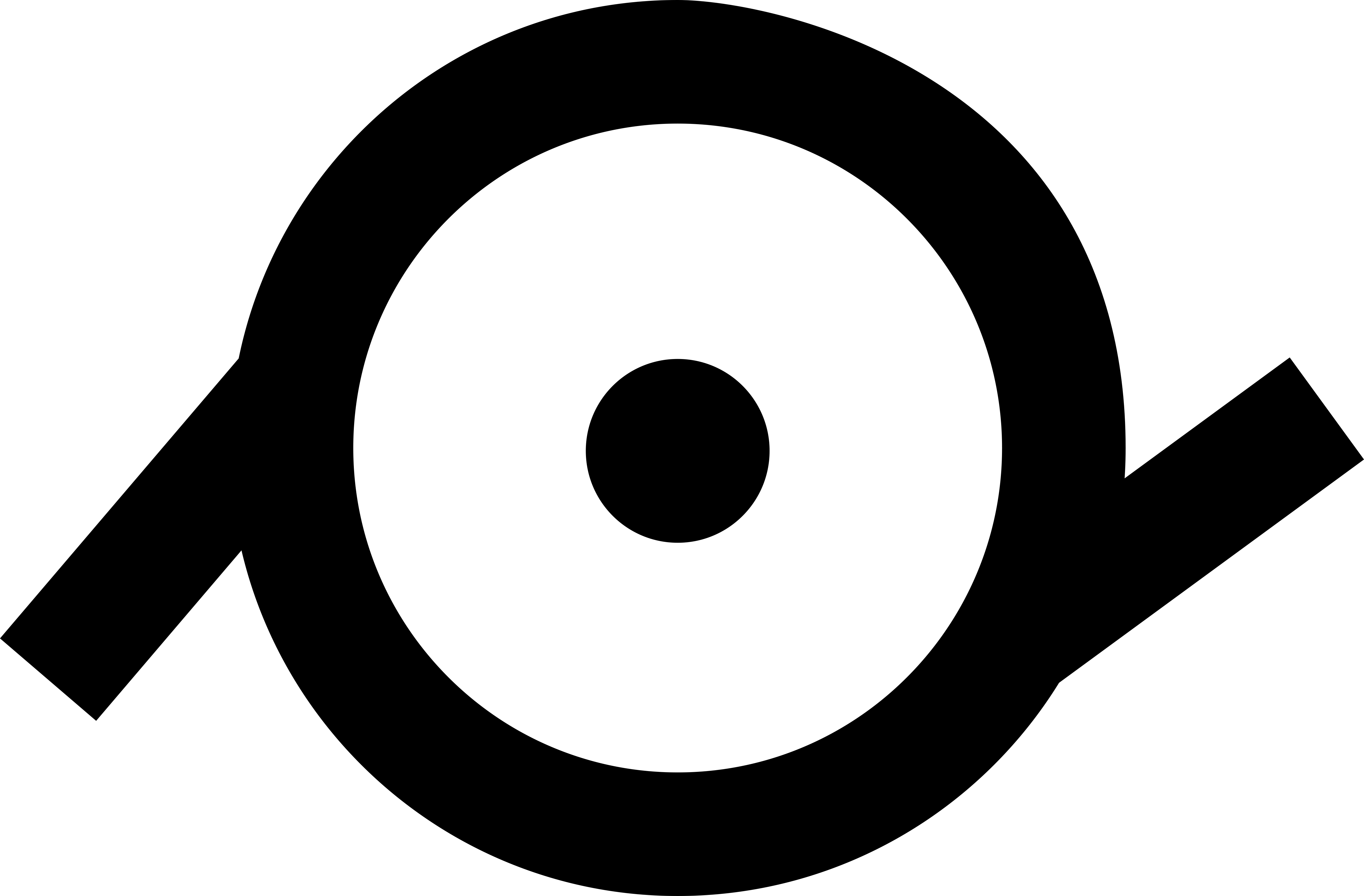 epicenity is used in linguistics, biology and also represent a gender identity